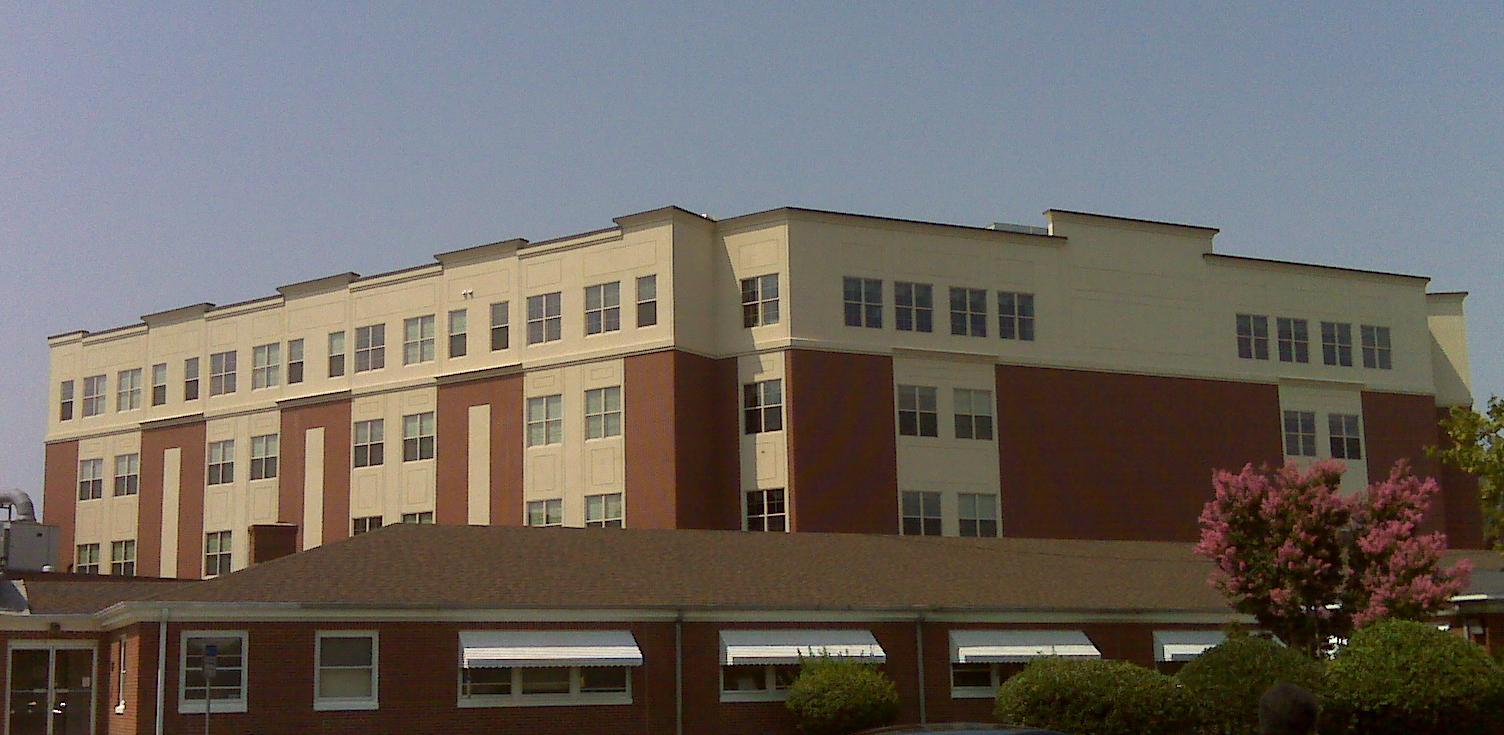 A picture of the new nursing home in Crisfield, Maryland (the large building in the rear), with the older nursing home standing in front of it.